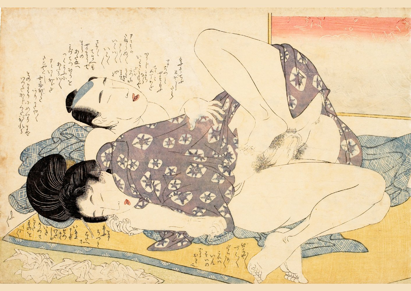 Feigning Sleep from the series Picture Book: Pulling Komachi (Ehon Komachi biki) by Kitagawa Utamaro, 1802, Honolulu Museum of Art, accession 24681